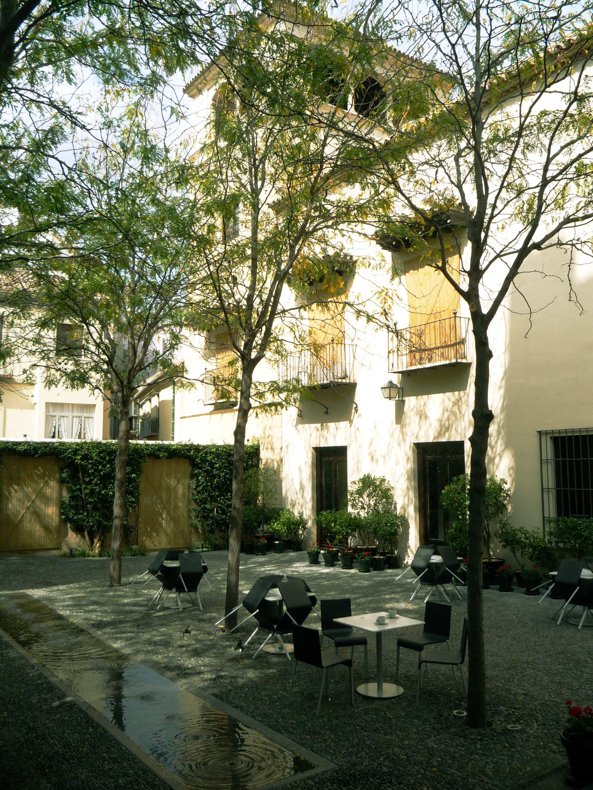 Picasso Museum, Málaga, Spain.